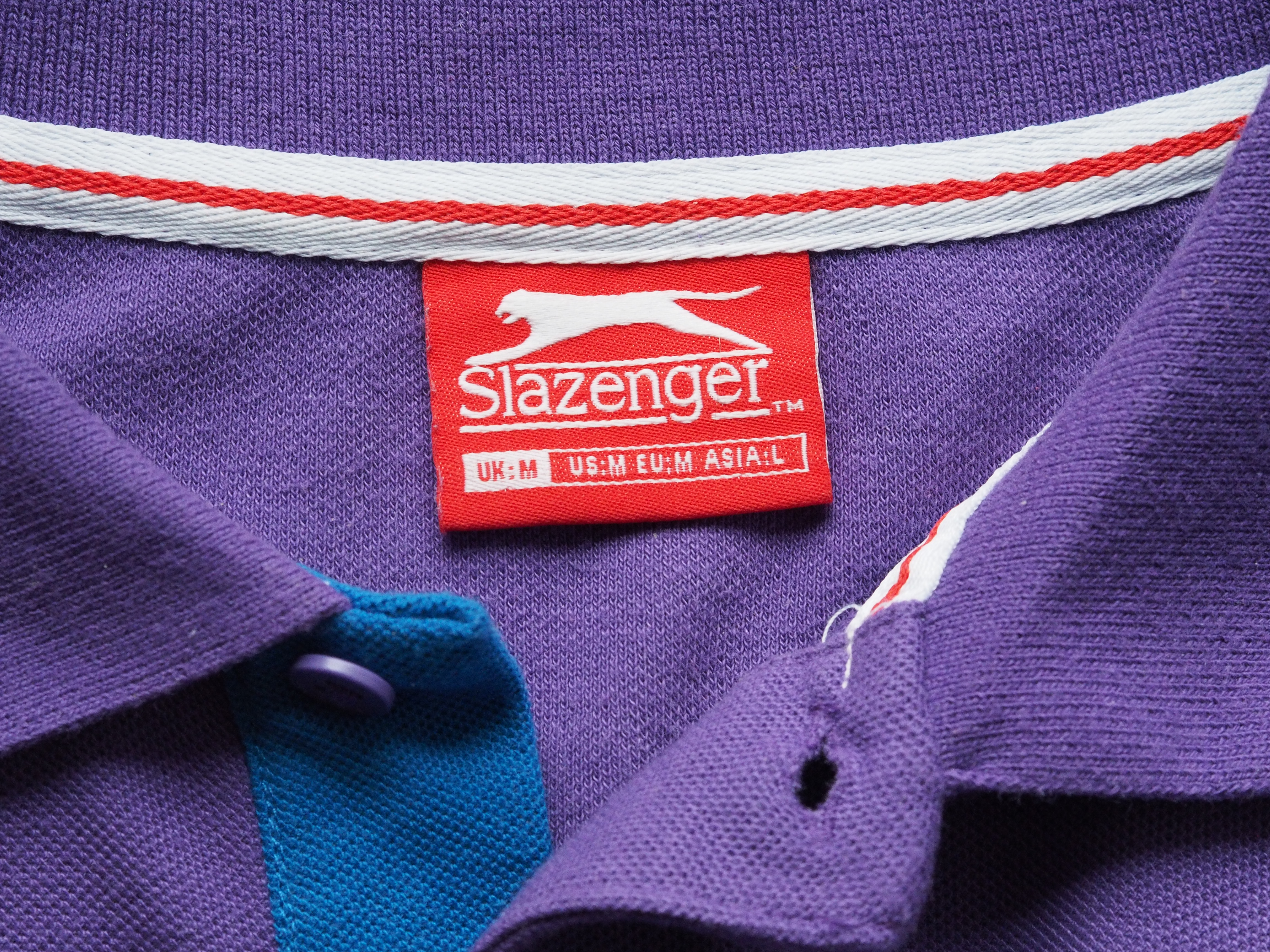 A textile label showing the difference in average height (shown on Polo shirt). What is a Medium size in Europe and USA becomes Large size in Asia. This photograph was taken with an Olympus E-M1